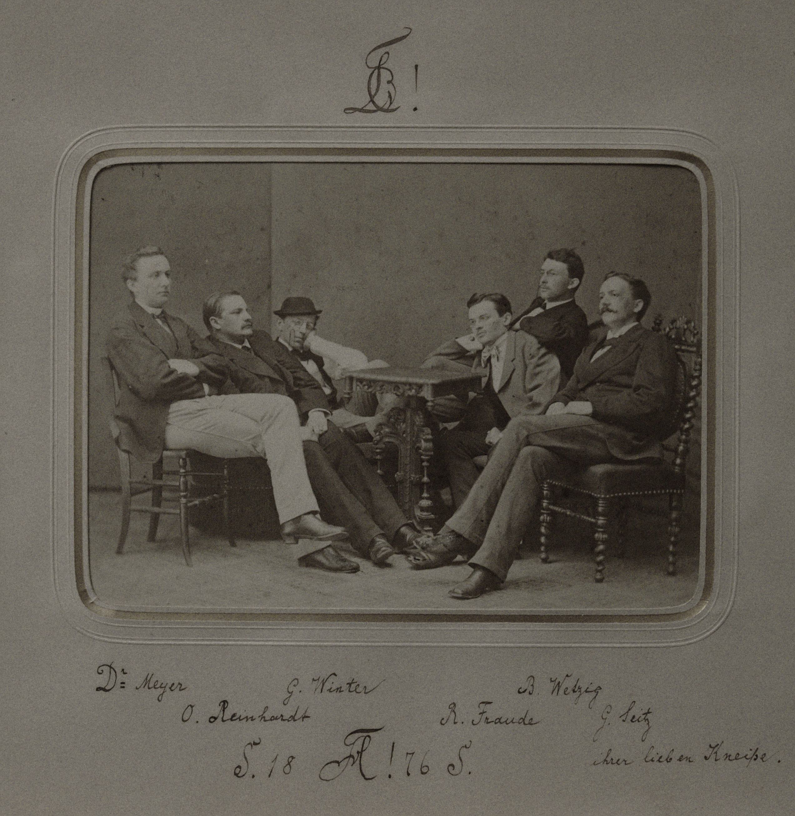 Members of the German student association Leonensia of Heidelberg